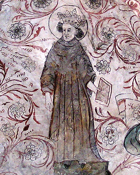 Magnus III of Sweden in Överselö kyrka